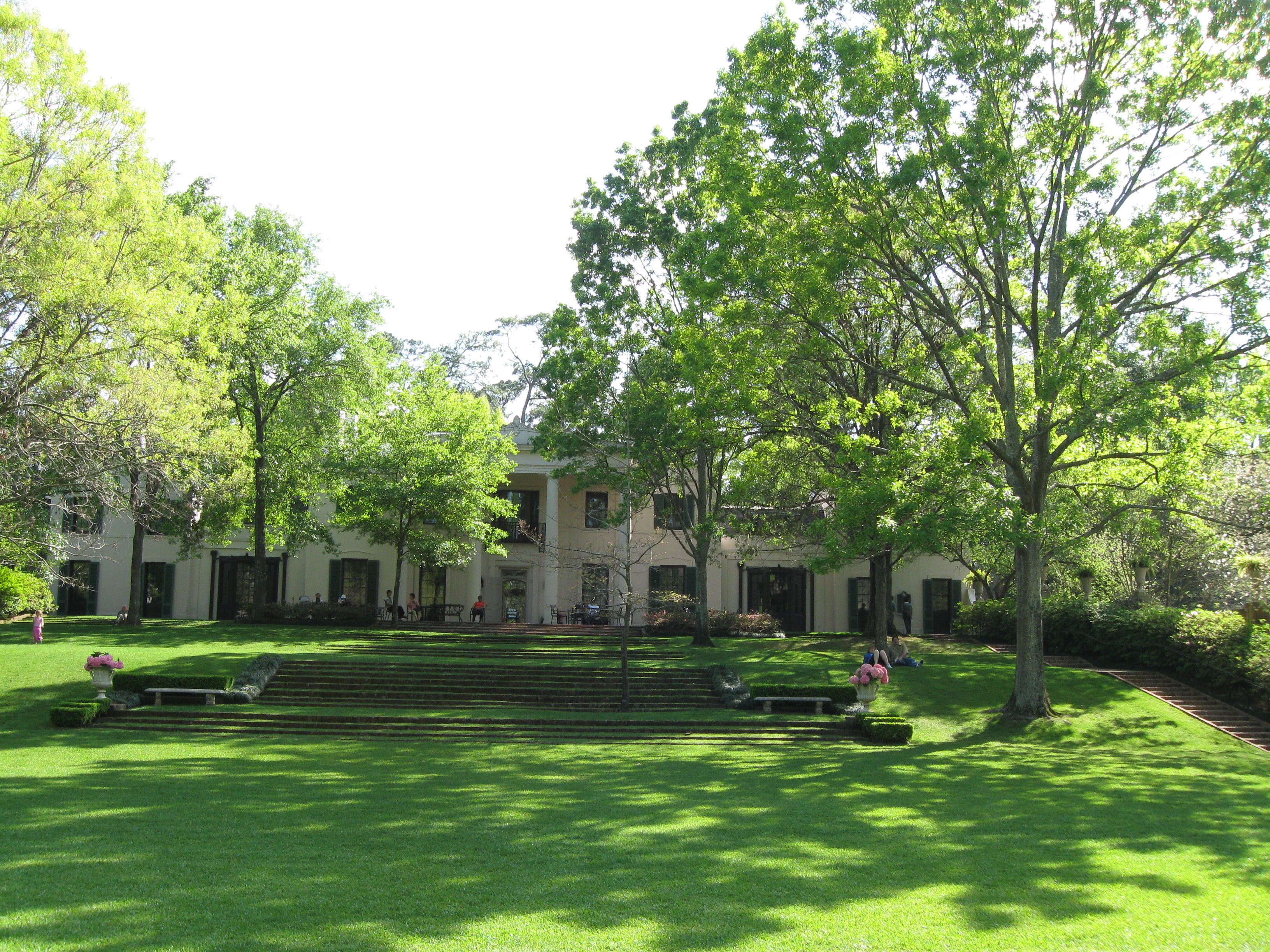 Bayou Bend estate in Houston, Texas.